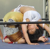 School Girl by Yuka. Oct 26 2014, Ice Ribbon Higashi-Washinomiya.